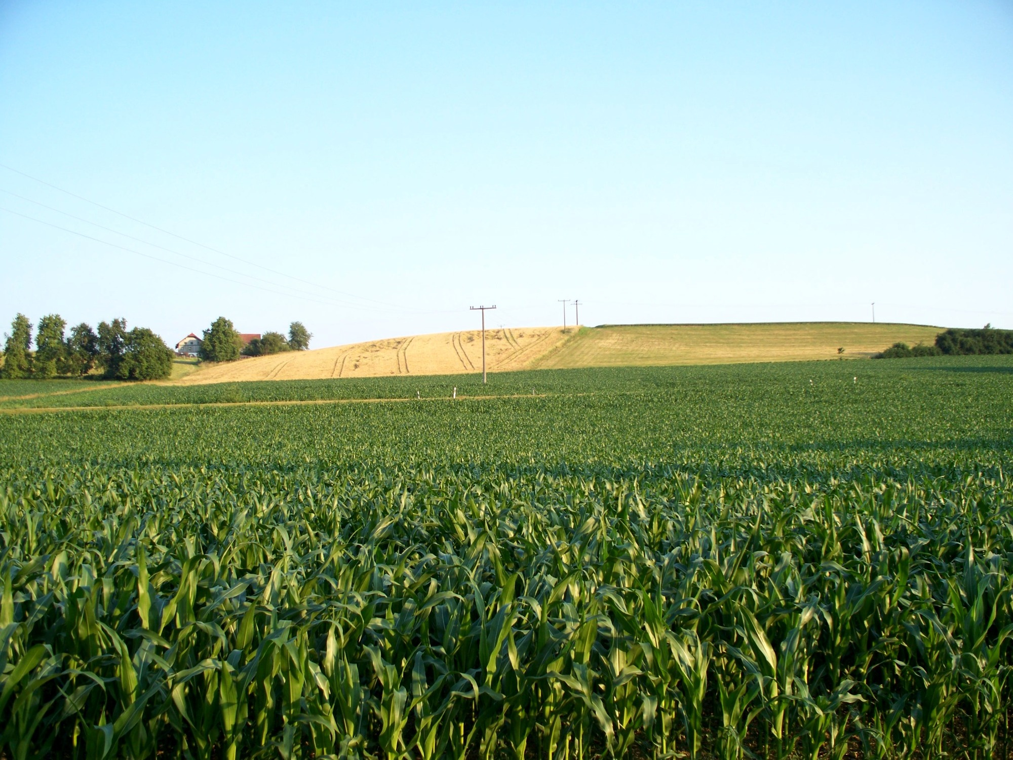 Agricultural fields in Bavaria near the village Aunkirchen.